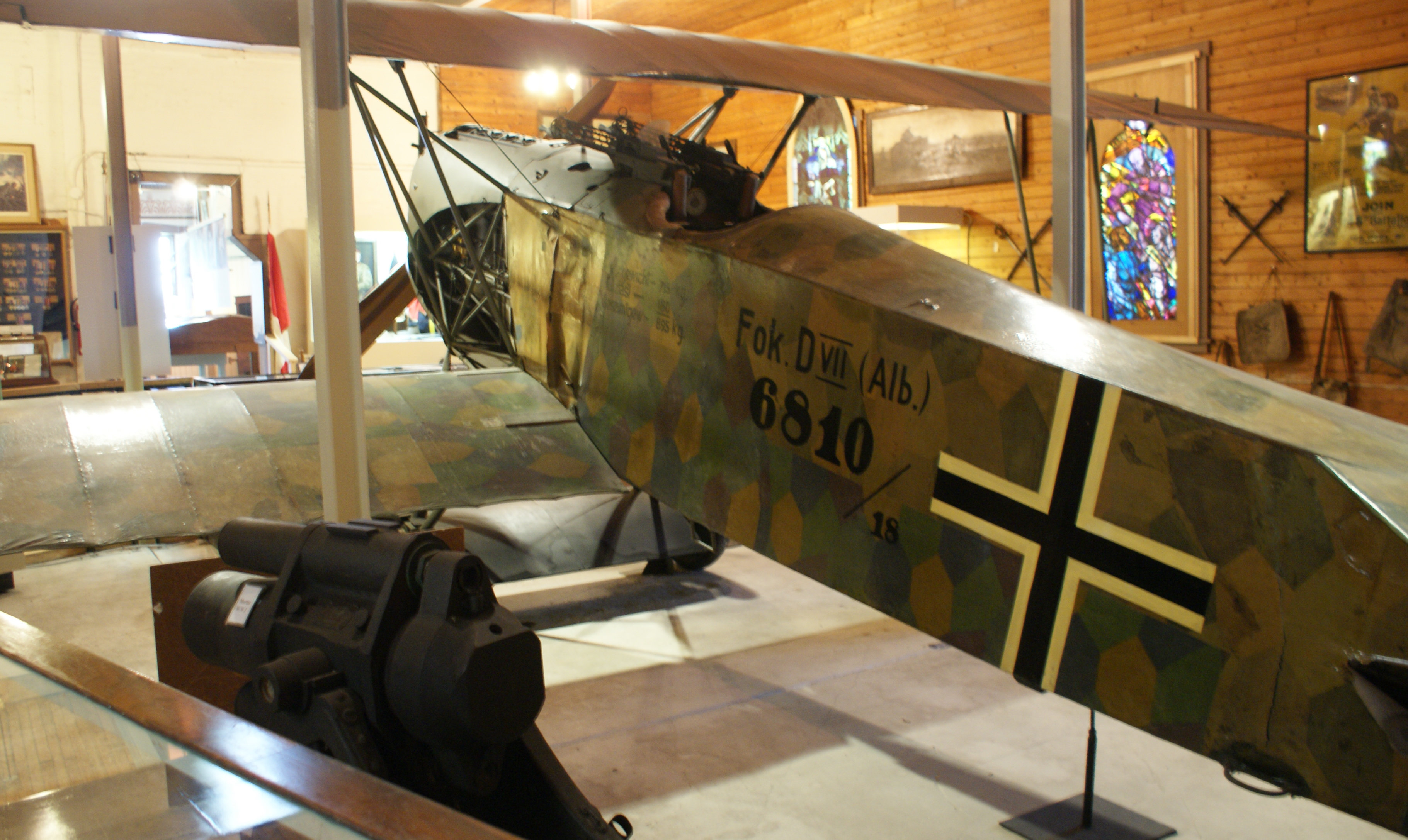 Fokker DVII World War I bi-plane exhibited in Knowlton, Quebec